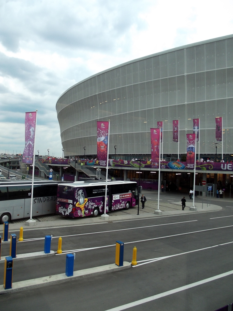 Wrocław Municipal Stadium before Czech Republic - Poland, UEFA Euro 2012.